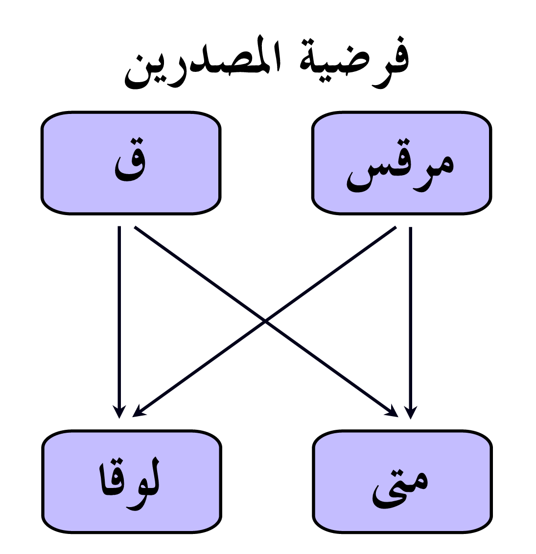 Arabic version of Image:Synoptic problem - Two Source hypothesis.png